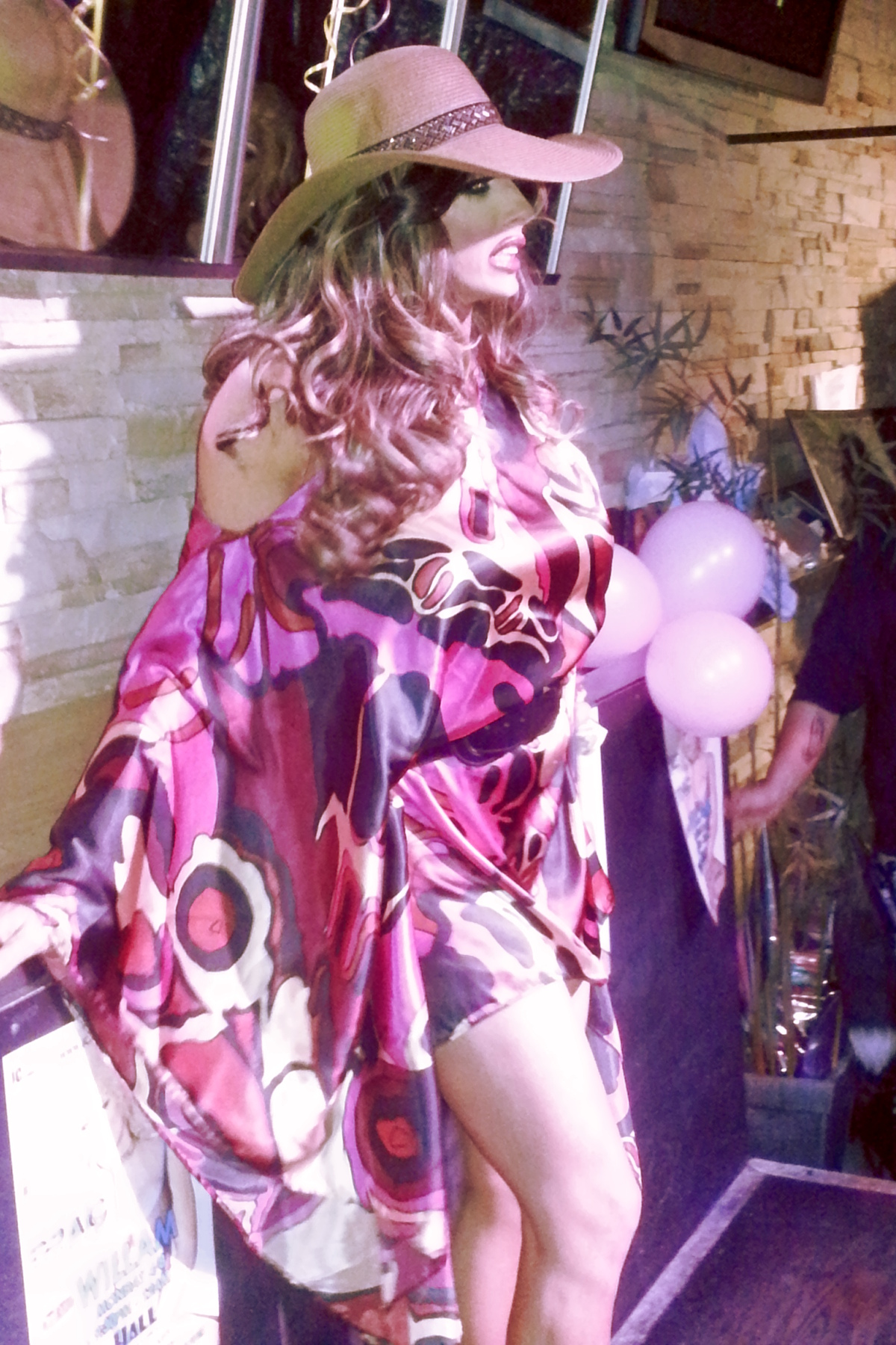 Alyssa Edwards performing at Toad Hall in San Francisco, California, United States